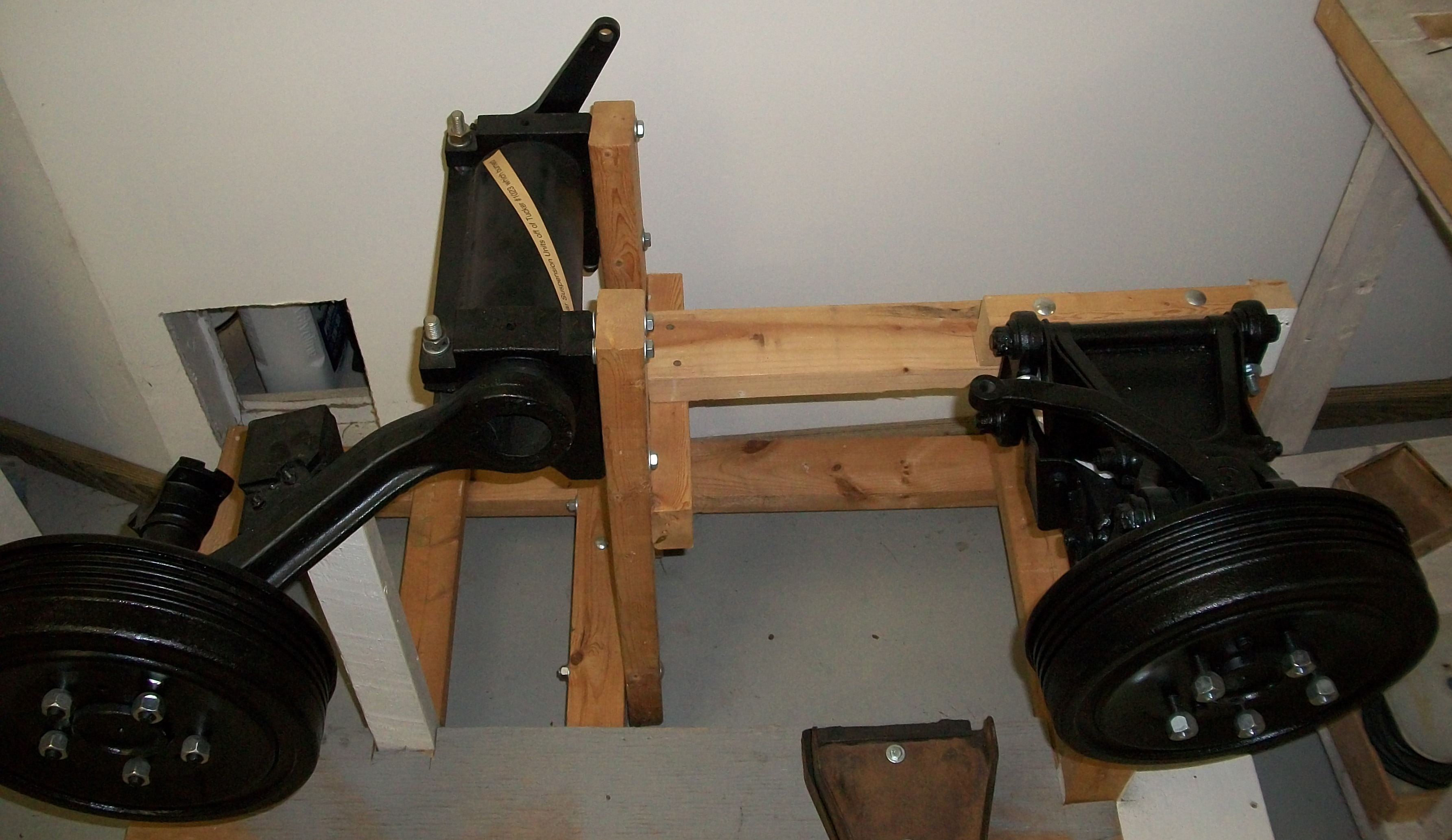 Tucker rear torsion tube(left) and Front Sandwich style(left-cars#1003-1025) suspensions.